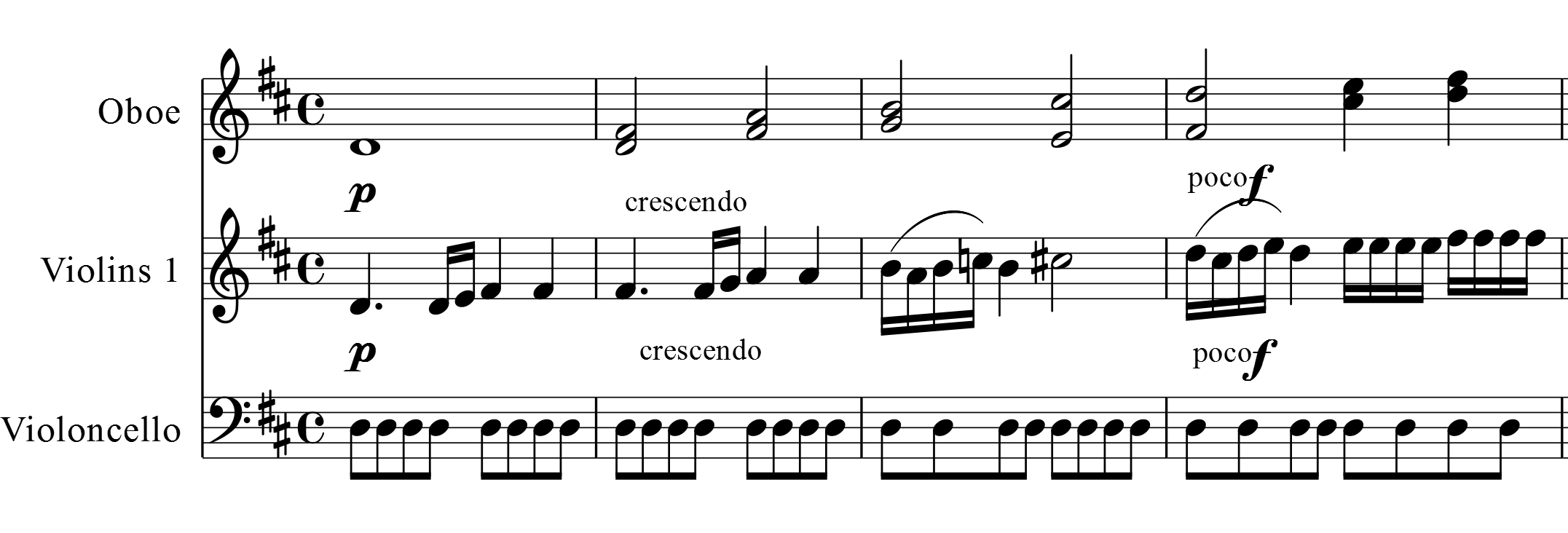 Joseph Haydn, Symphony No 1, first movement, bar 1-4